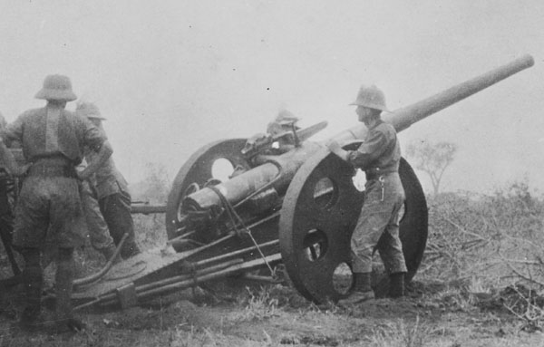 Photograph of British QF 12 pounder 18 cwt naval gun on improvised field carriage, East African campaign, World War I. Back of photo reads : "7th SAI with Heavy Gun". The wheels with 8 circle cutouts are typical of those constructed at the Salt River railway workshops, Cape Town. The gun is believed to be one of a group which arrived from Malta with the first contingent of the Royal Marine Artillery in Cape Town in Oct / Nov 1914 - possibly becoming "D" Battery (Roper) in the campaign in German South West Africa and then after July 1915 being sent to East Africa.